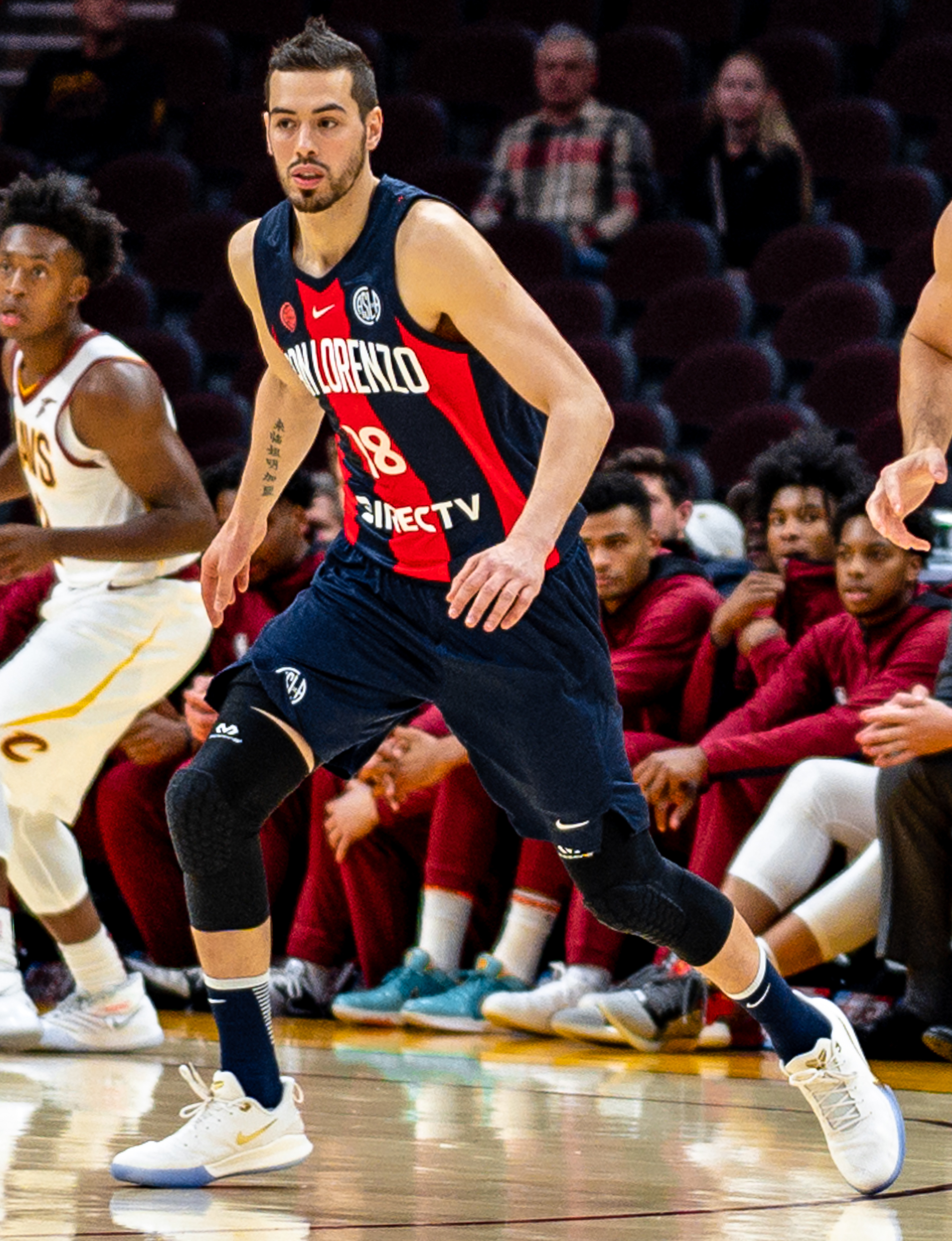 Facundo Piñero and Kevin Love.